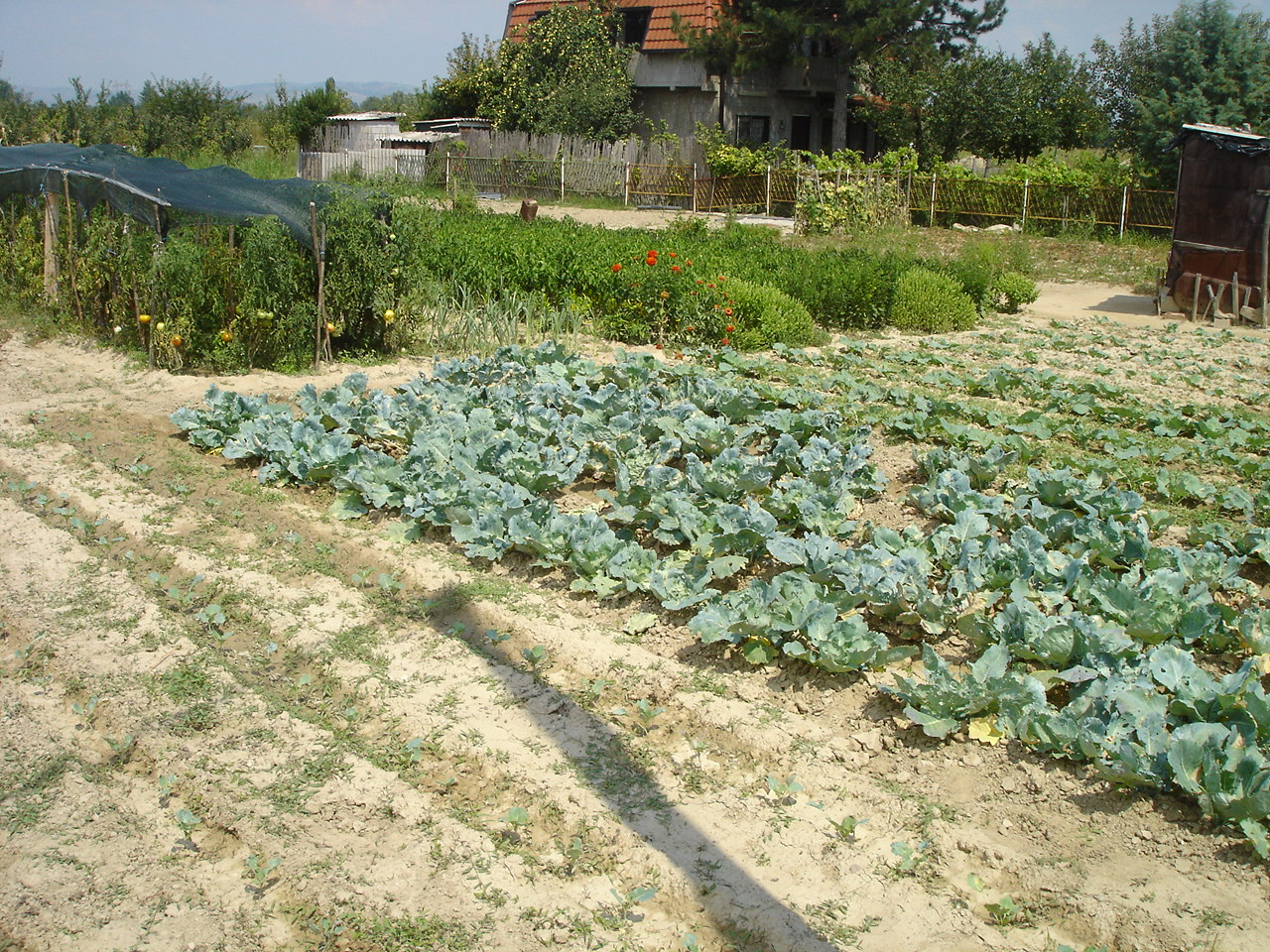 Vegetaables growing on a field in Macedonia